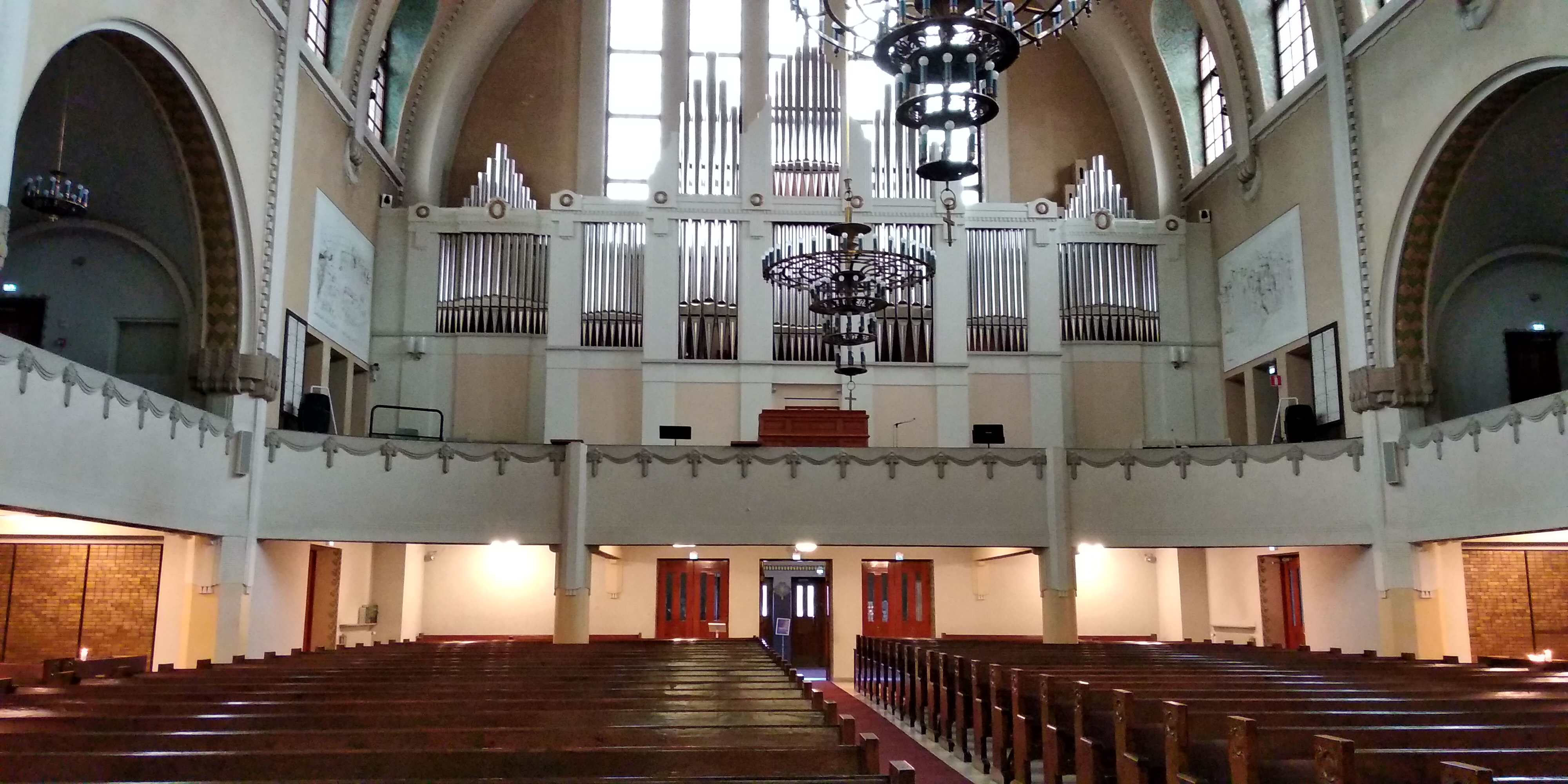 The organ in Kallio Church in Helsinki.